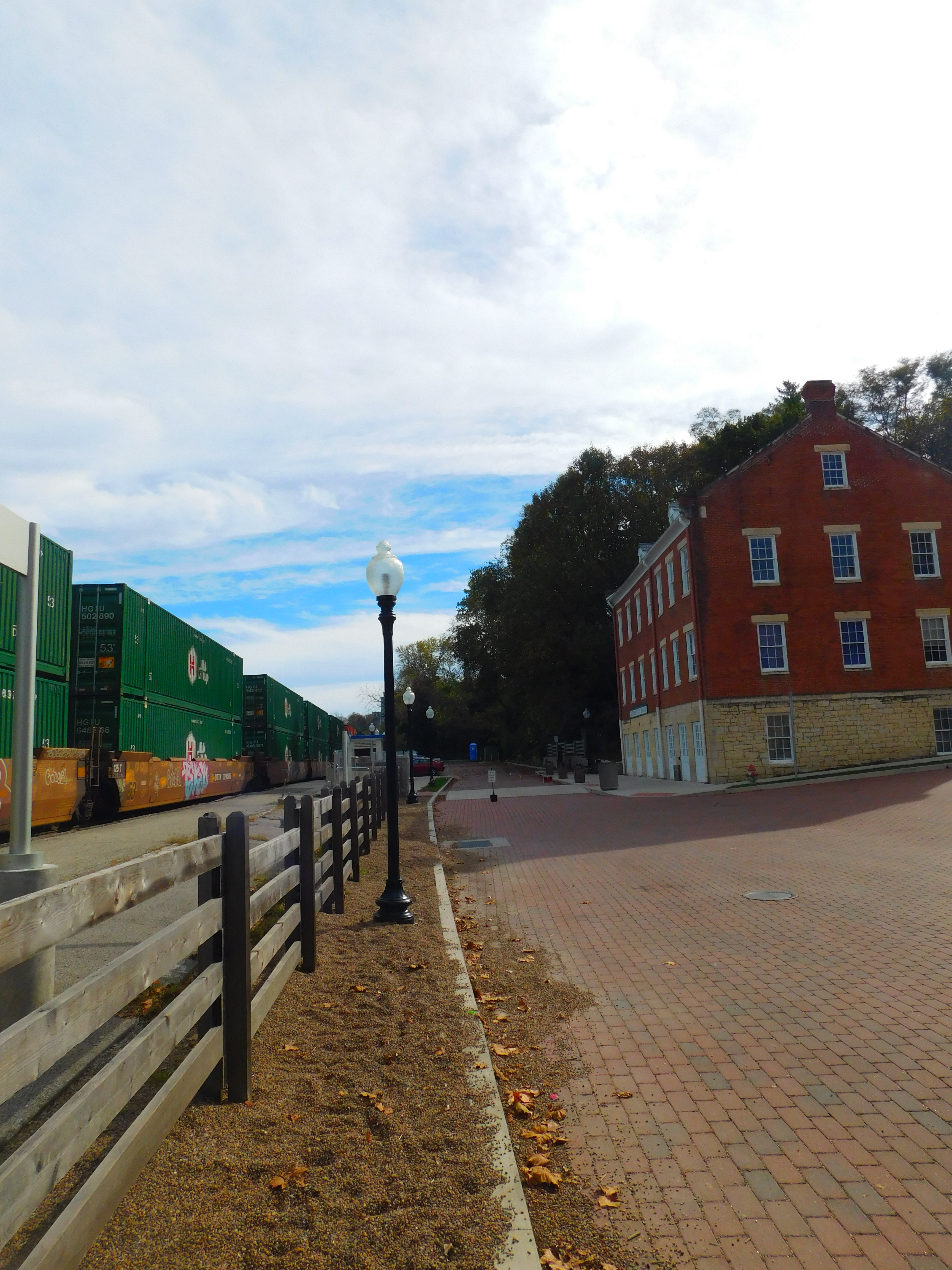 The Jefferson City Amtrak station with a Union Pacific Railroad freight sitting in it.